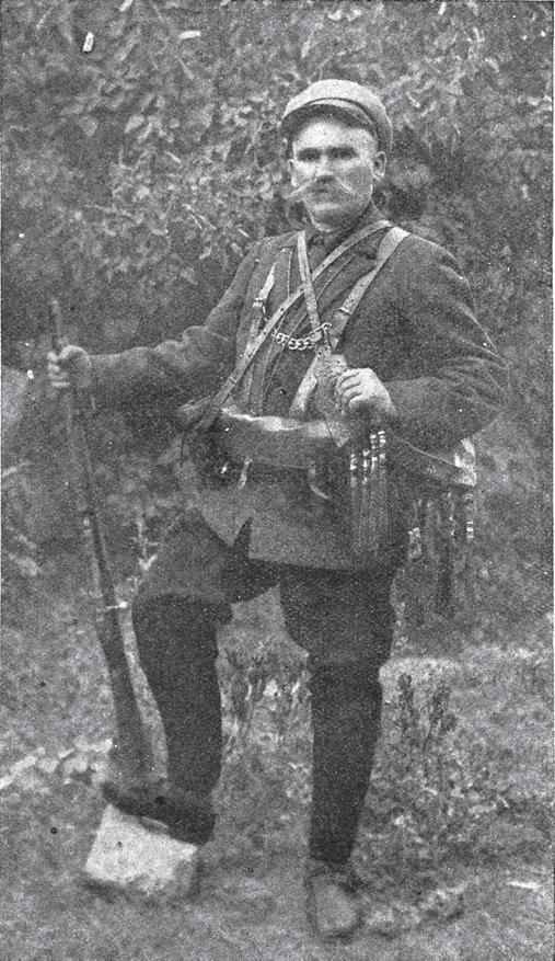 Portrait of IMARO voyvoda Alexo Stefanov Simonovski.